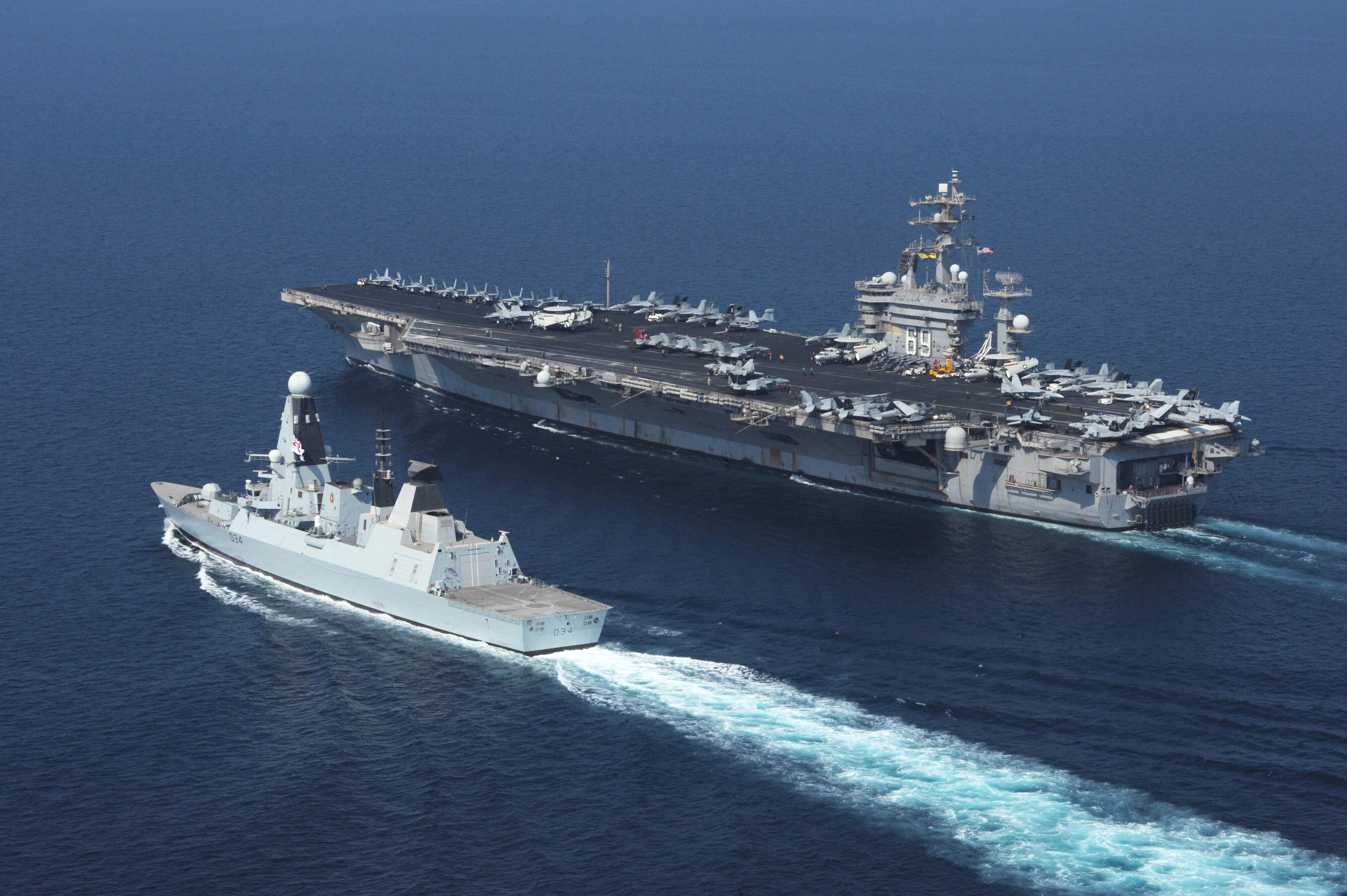 U.S. 5TH FLEET AREA OF RESPONSIBILITY (Nov. 4, 2012) The Royal Navy destroyer HMS Diamond (D34) is underway alongside the aircraft carrier USS Dwight D. Eisenhower (CVN 69). Dwight D. Eisenhower is deployed to the U.S. 5th Fleet area of responsibility conducting maritime security operations, theater security cooperation efforts and support missions for Operation Enduring Freedom. (U.S. Navy photo by Mass Communication Specialist 3rd Class Ryan D. McLearnon/Released) 121104-N-GC639-065 Join the conversation navylive.dodlive.mil